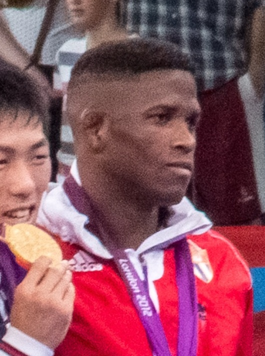 2012 Summer Olympics, Liván López.